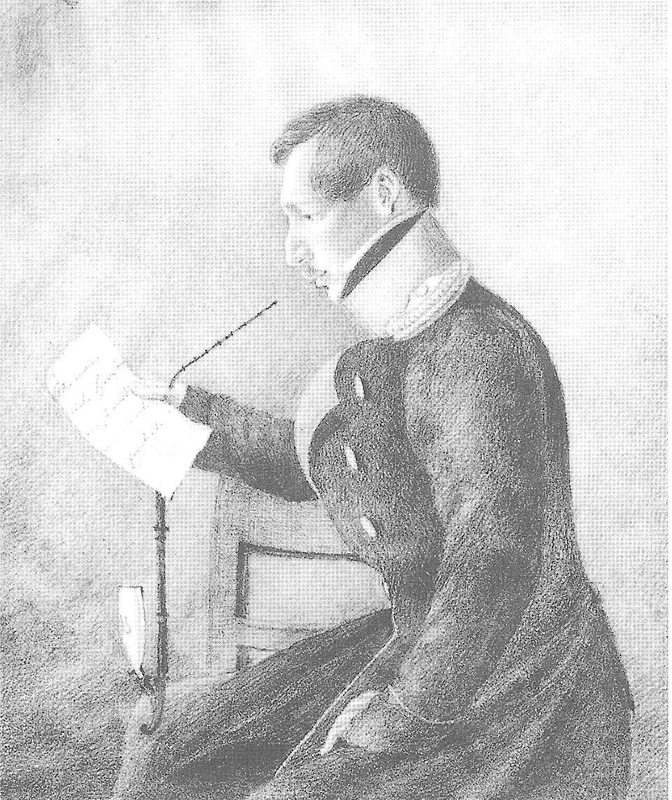 Ferdinand von Bültzingslöwen as Lieutenant, c. 1835, pencil drawing by a friend